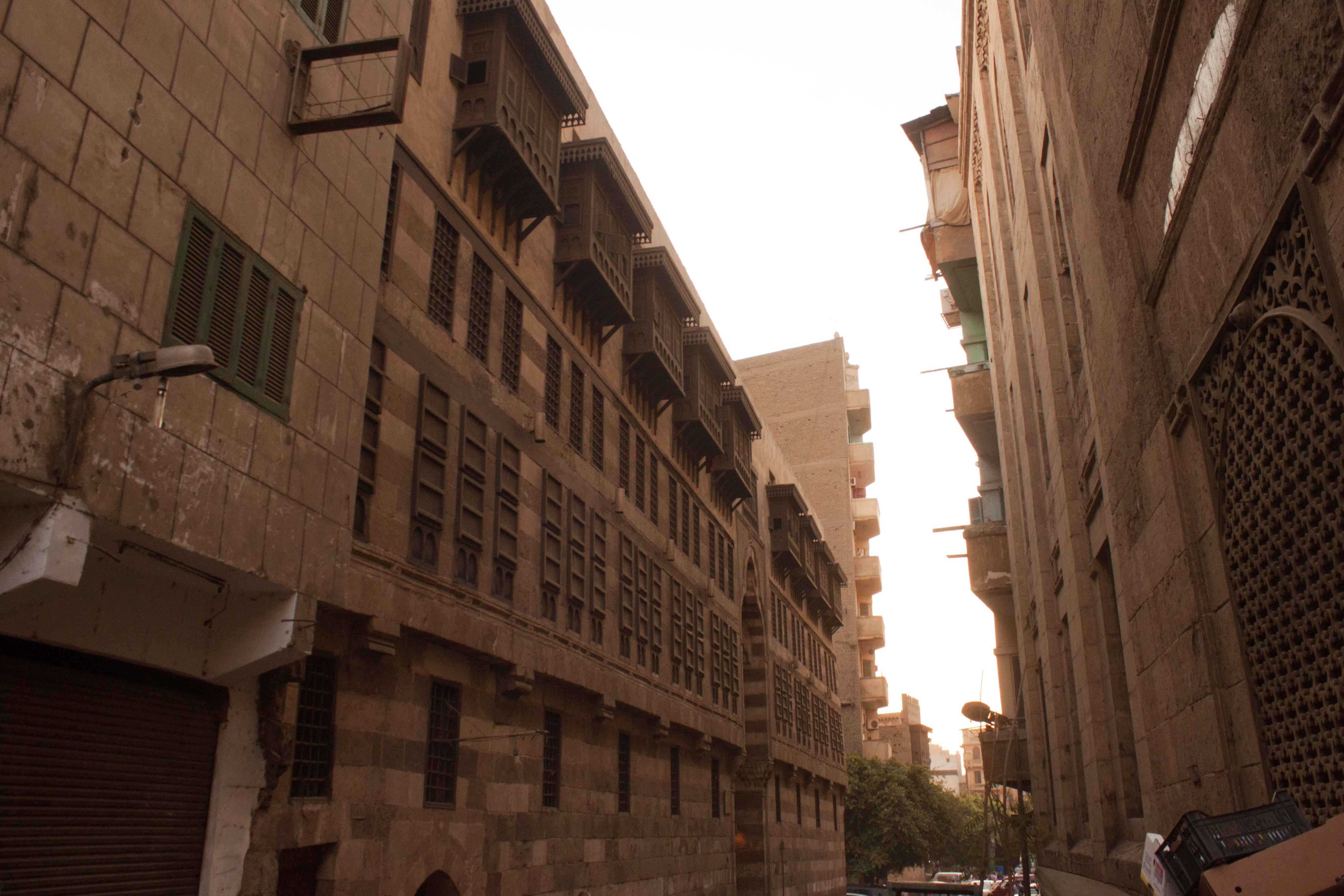 Wikala of al-Ghuri, streetside facade